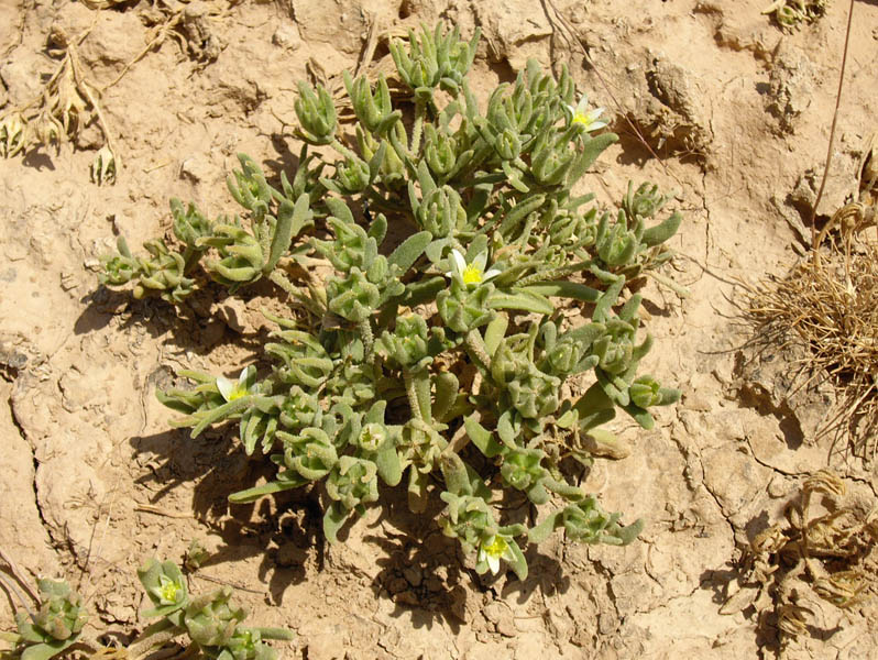 Aizoon hispanicum